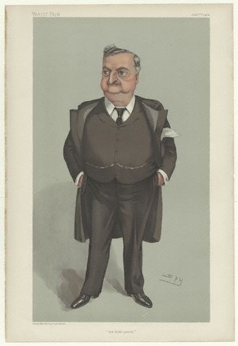 Caricature of John Redmond. Caption read "the Irish petrel".